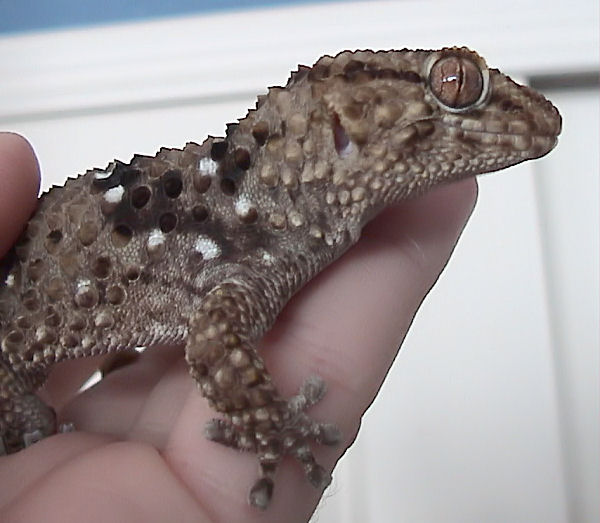 Picture of a Pachydactylus bibronii (a gecko). Imported from en:. Photographer: User:Dawson